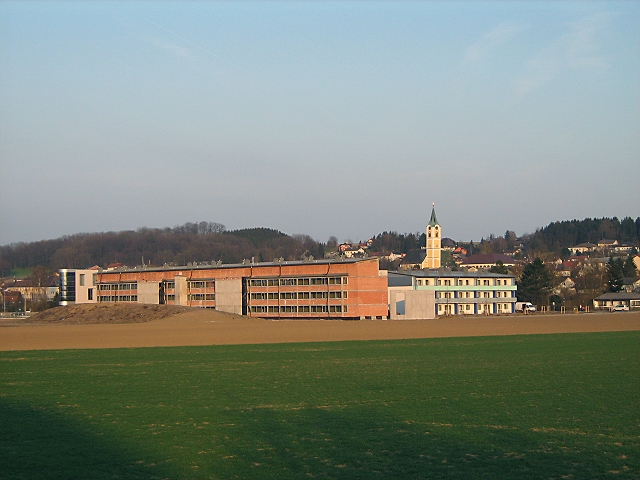 View of the town of Ansfelden from north-west with the Saint Valentines's Parish Church in background.